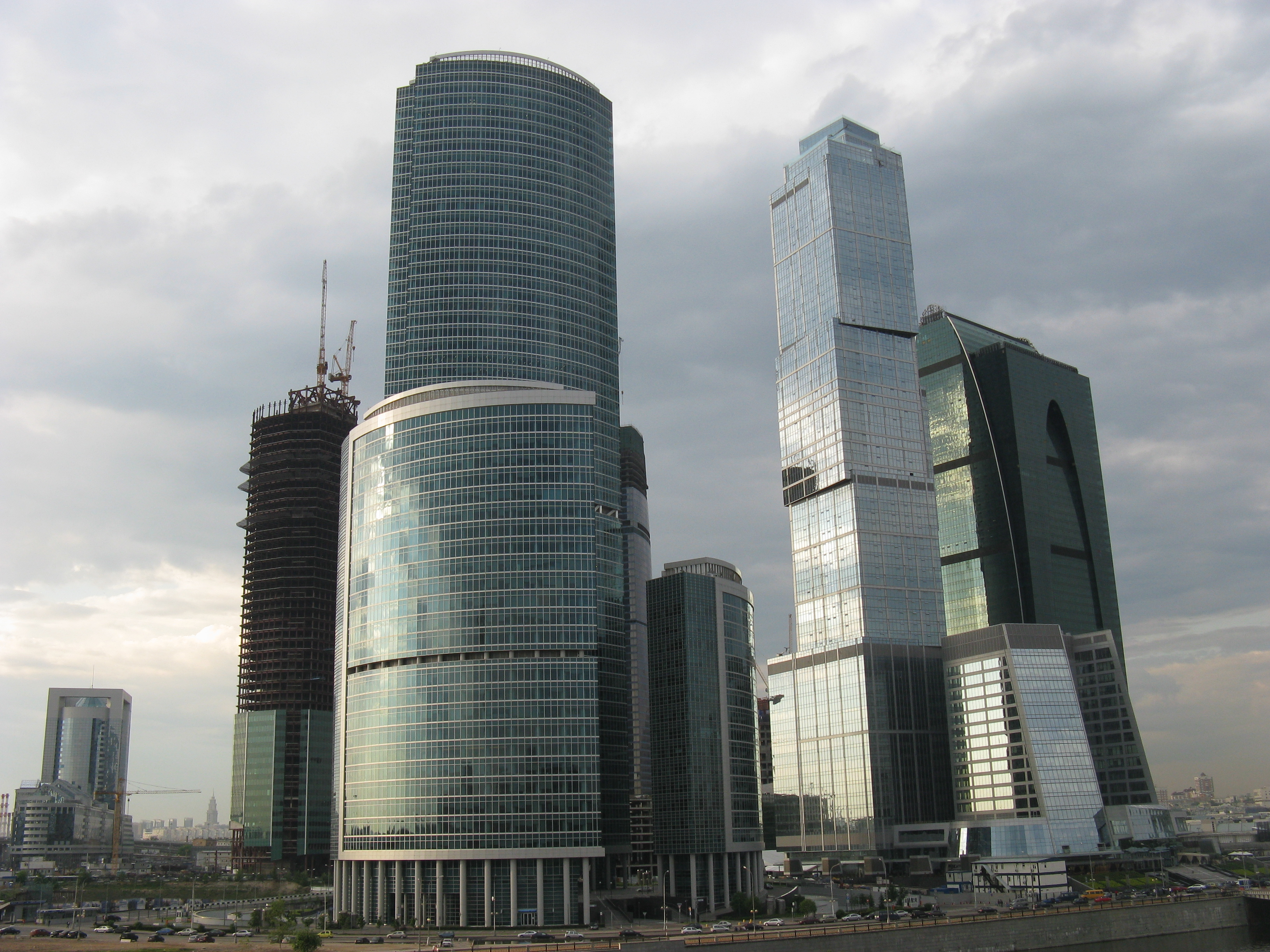 Moscow-City (may 2010)